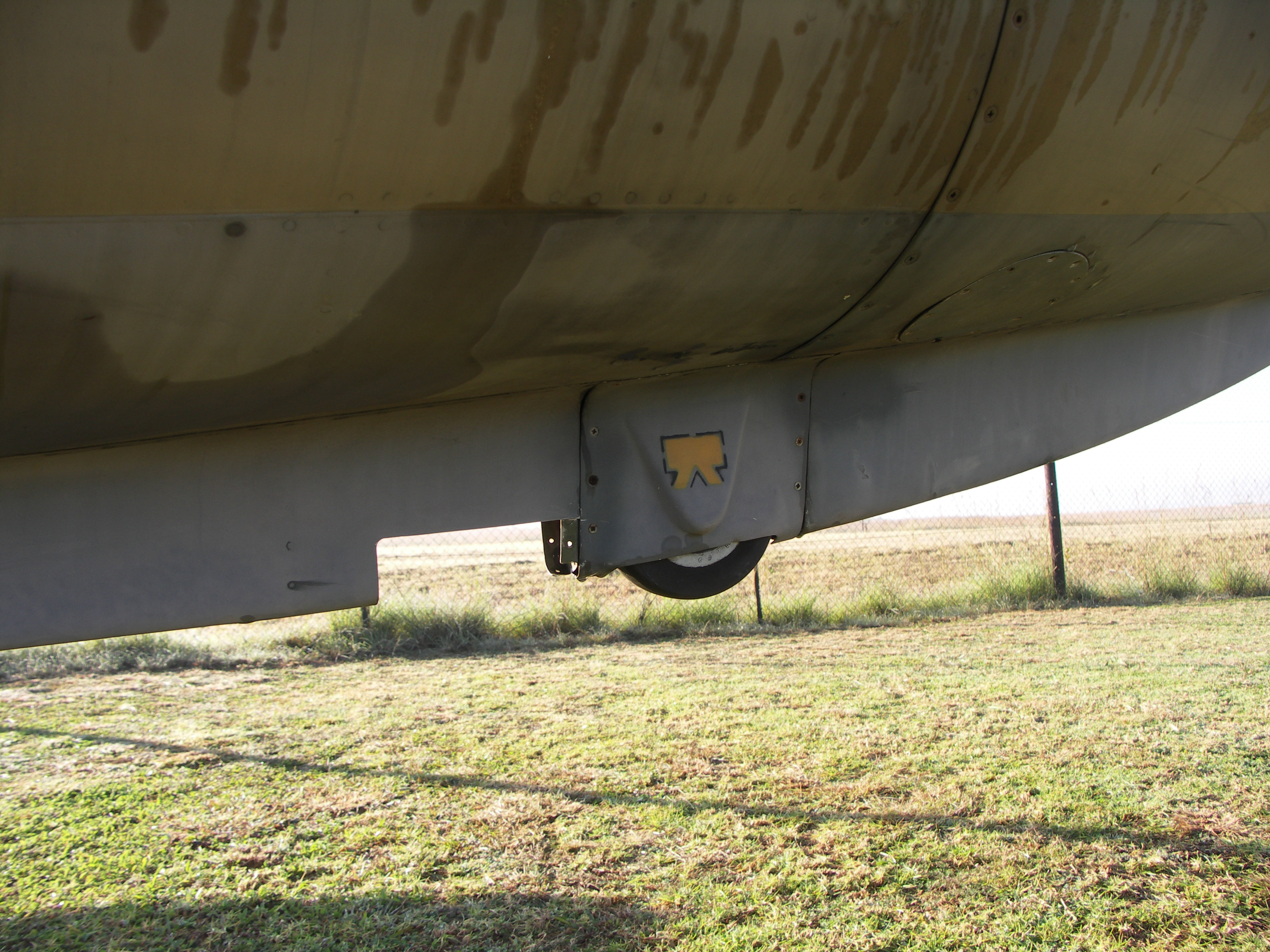 Tail wheel on an Impala MK II (Aermacchi MB-326) to prevent damage caused by tailstrike.